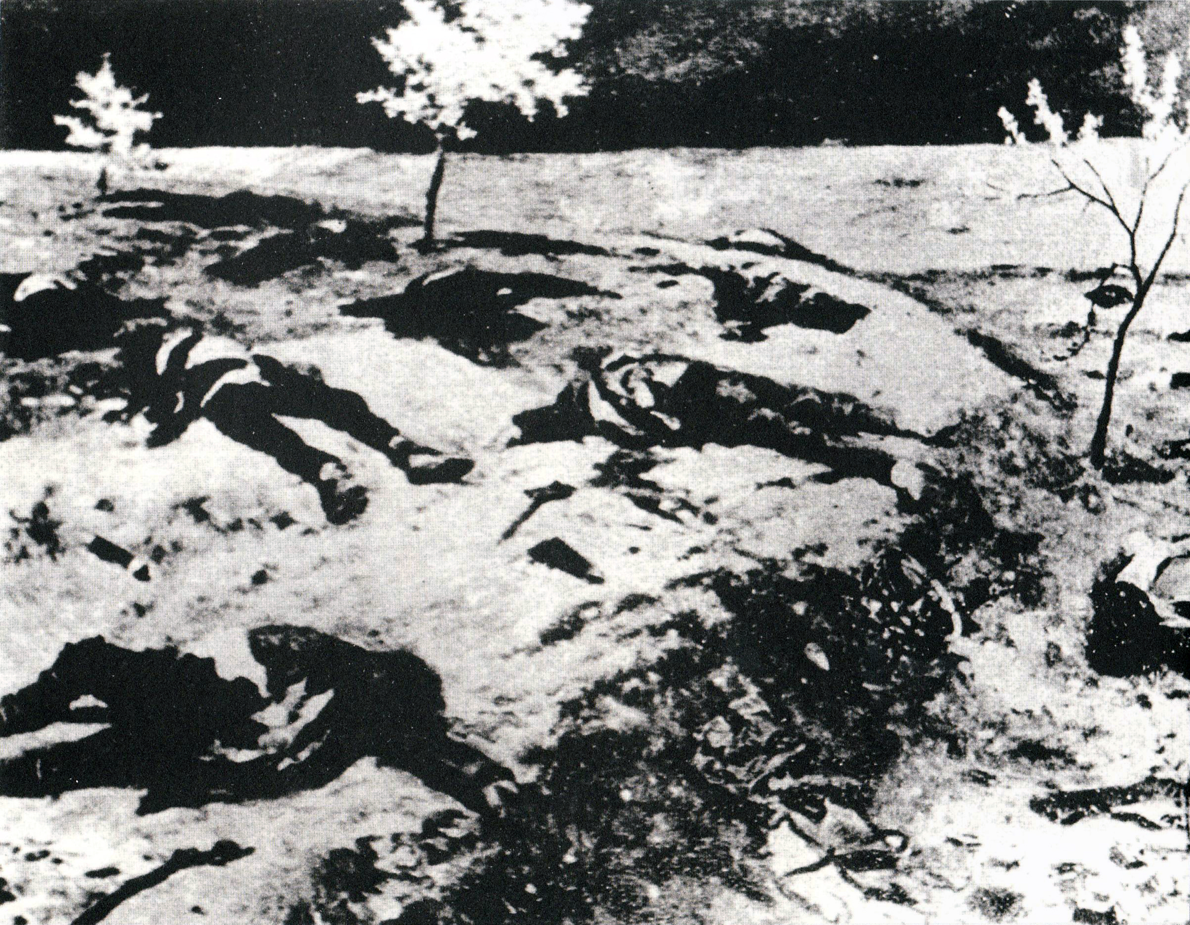 Victims of Greek Pontian genocide massacred by Turks in Giresun, 1921